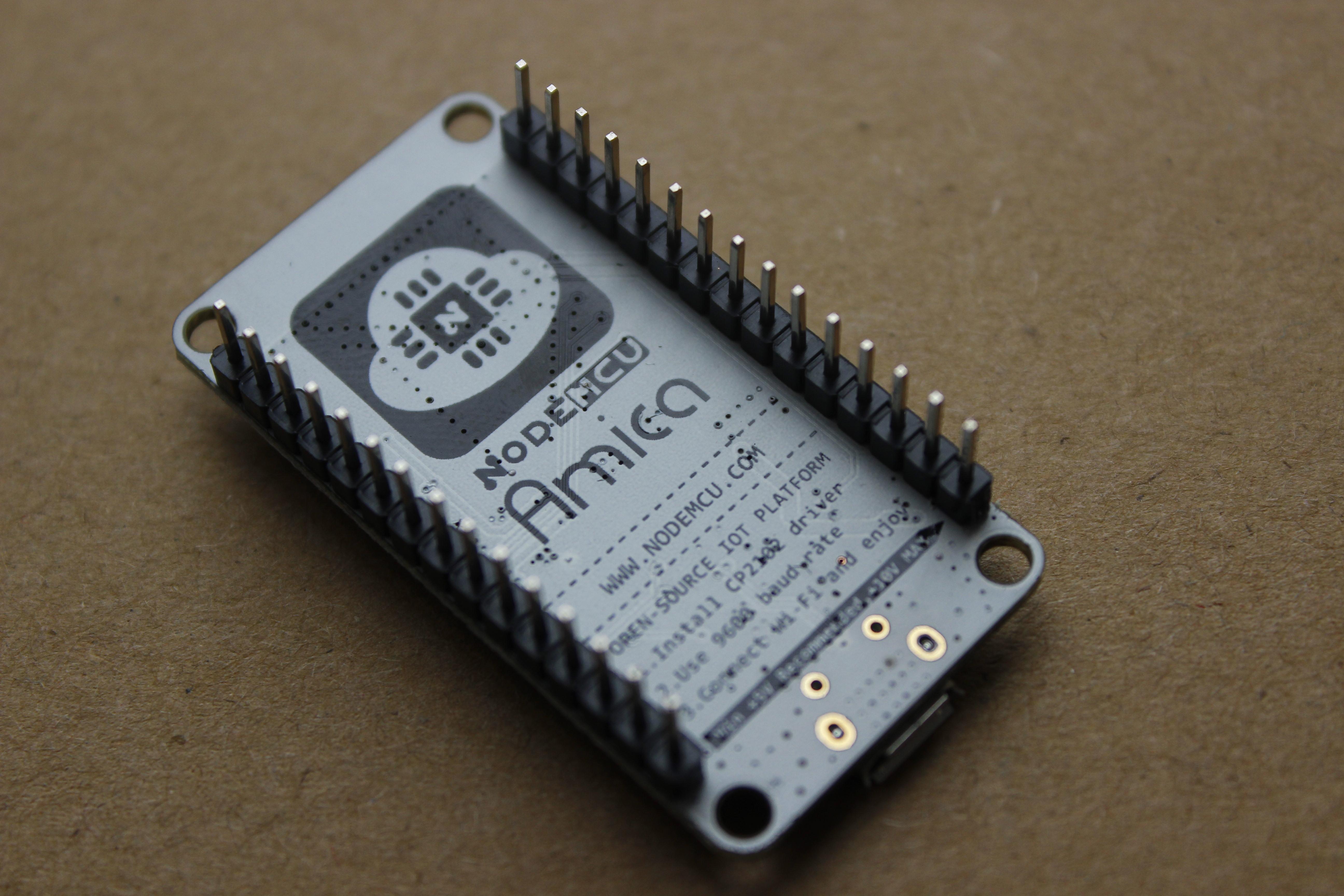 NodeMCU development board version 1.0 for NodeMCU Firmware, it based on ESP8266 Wi-Fi SoC. It is bottom side